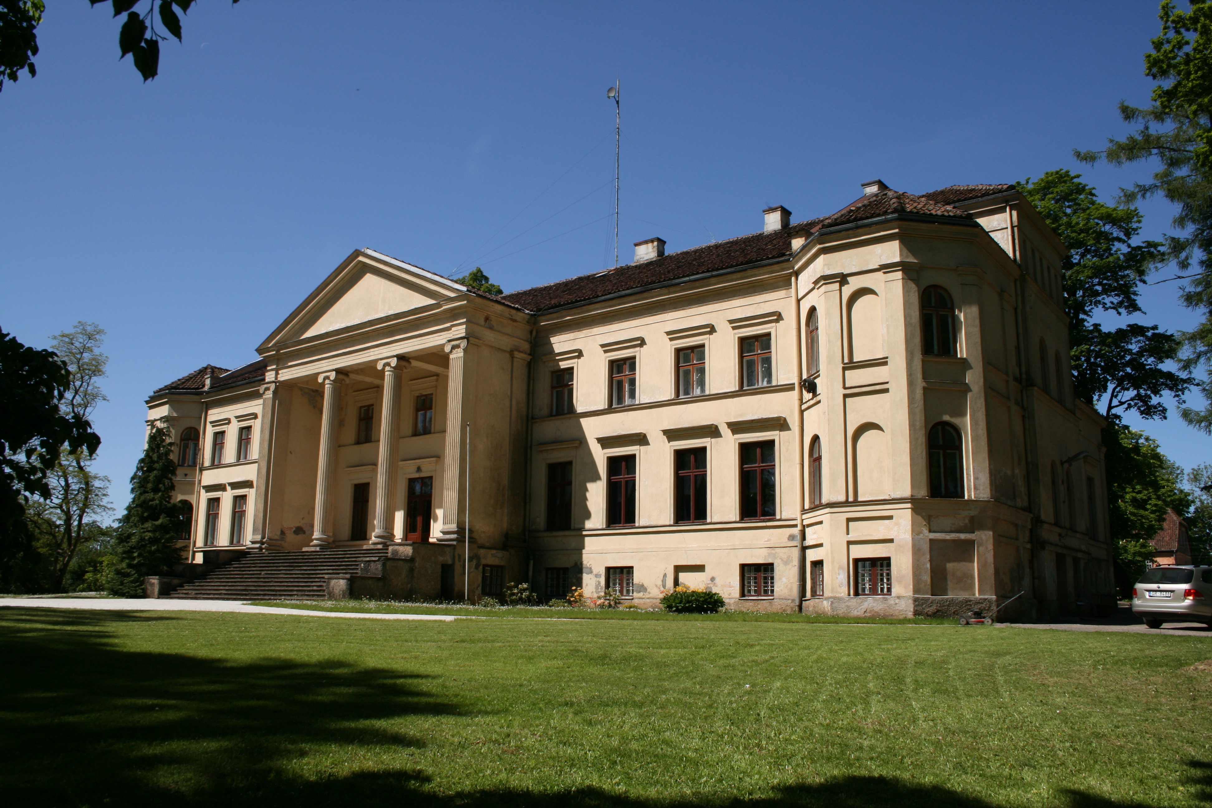 Īvande ManorLatviešu: Īvandes muižas pils